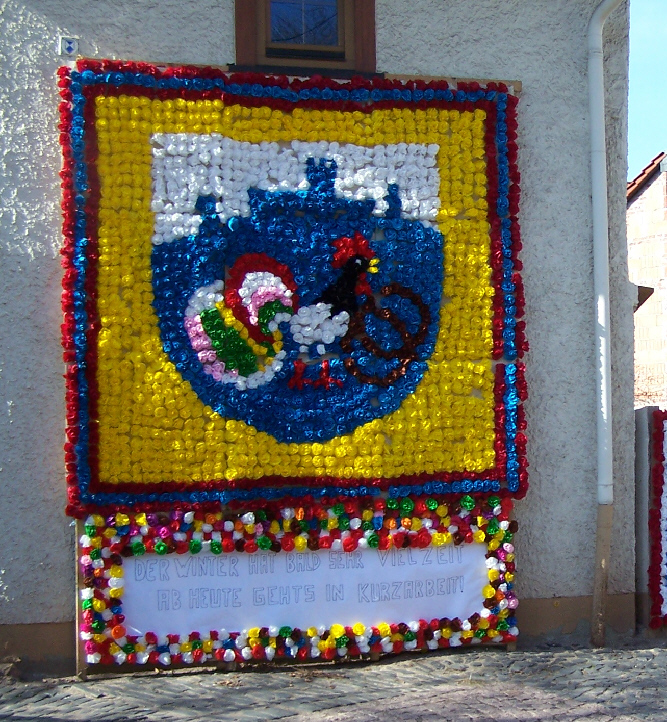 A plate made from thousends of paper-flowers to decorated the Sommergewinn in Eisenach.